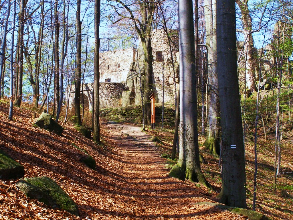 Road to Bolczow Castle